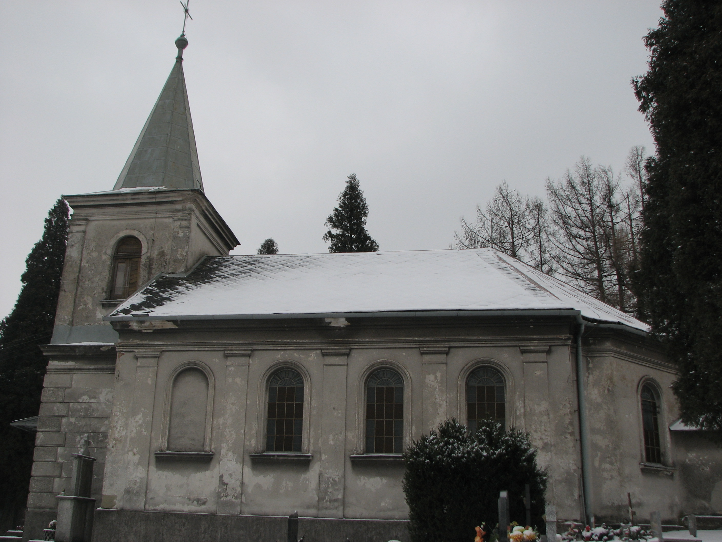 Church of St. John the Baptist's Birth in Mnisztwo (district of Cieszyn), old church from 1900